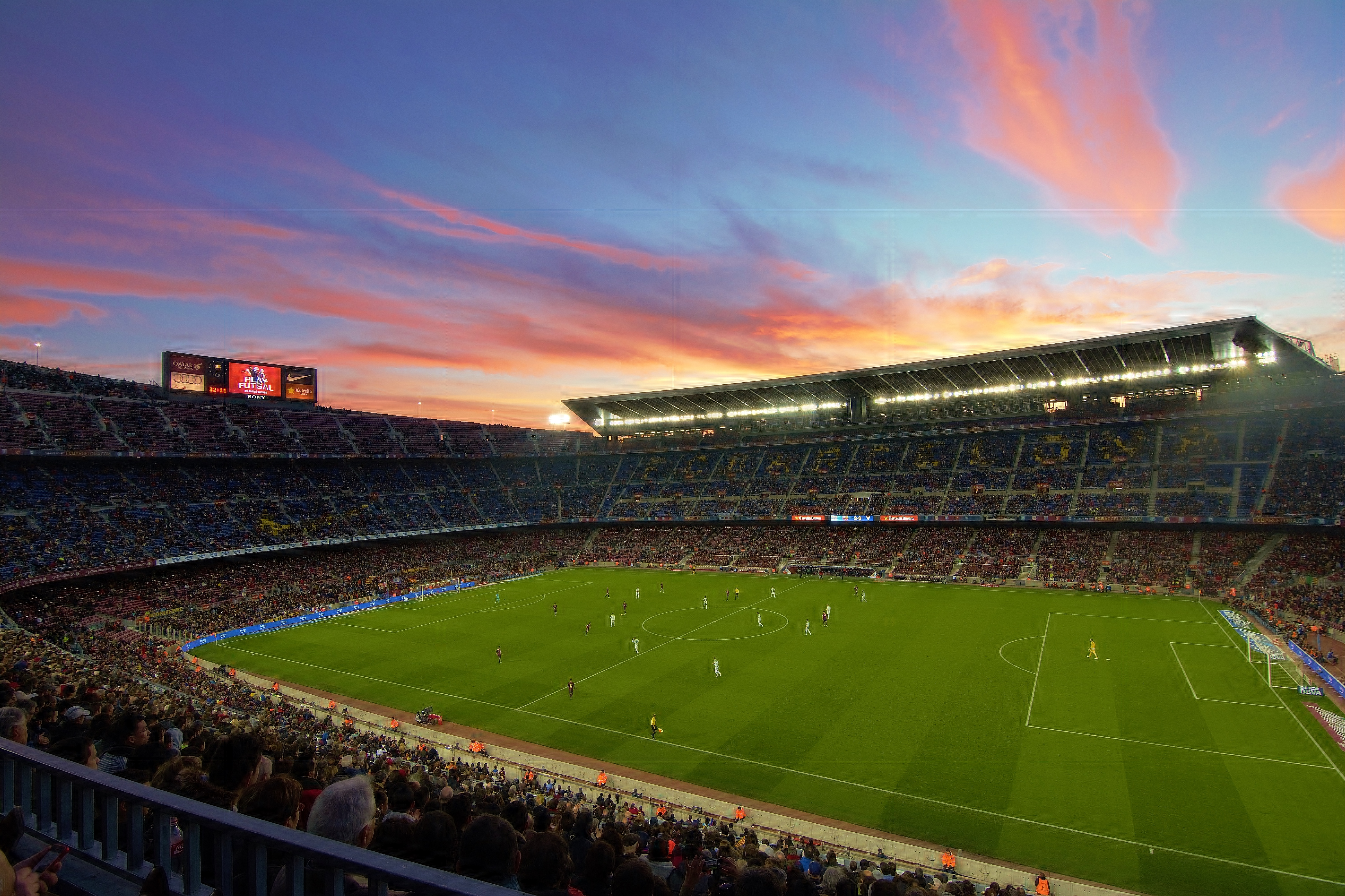 the biggest soccer stadium in Europe / Camp Nou in Barcelona taken by Teakjun Kim